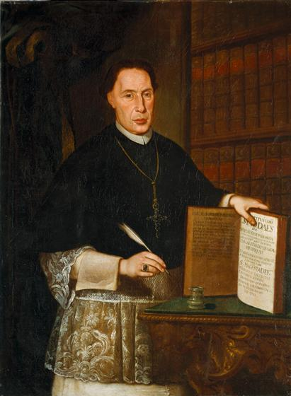 Aleixo de Miranda Henriques (1692-1771) a Portuguese dominican friar and bishop.